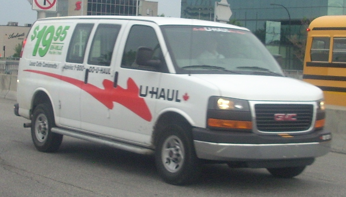 GMC Savana U-Haul photographed in Montreal, Quebec, Canada.